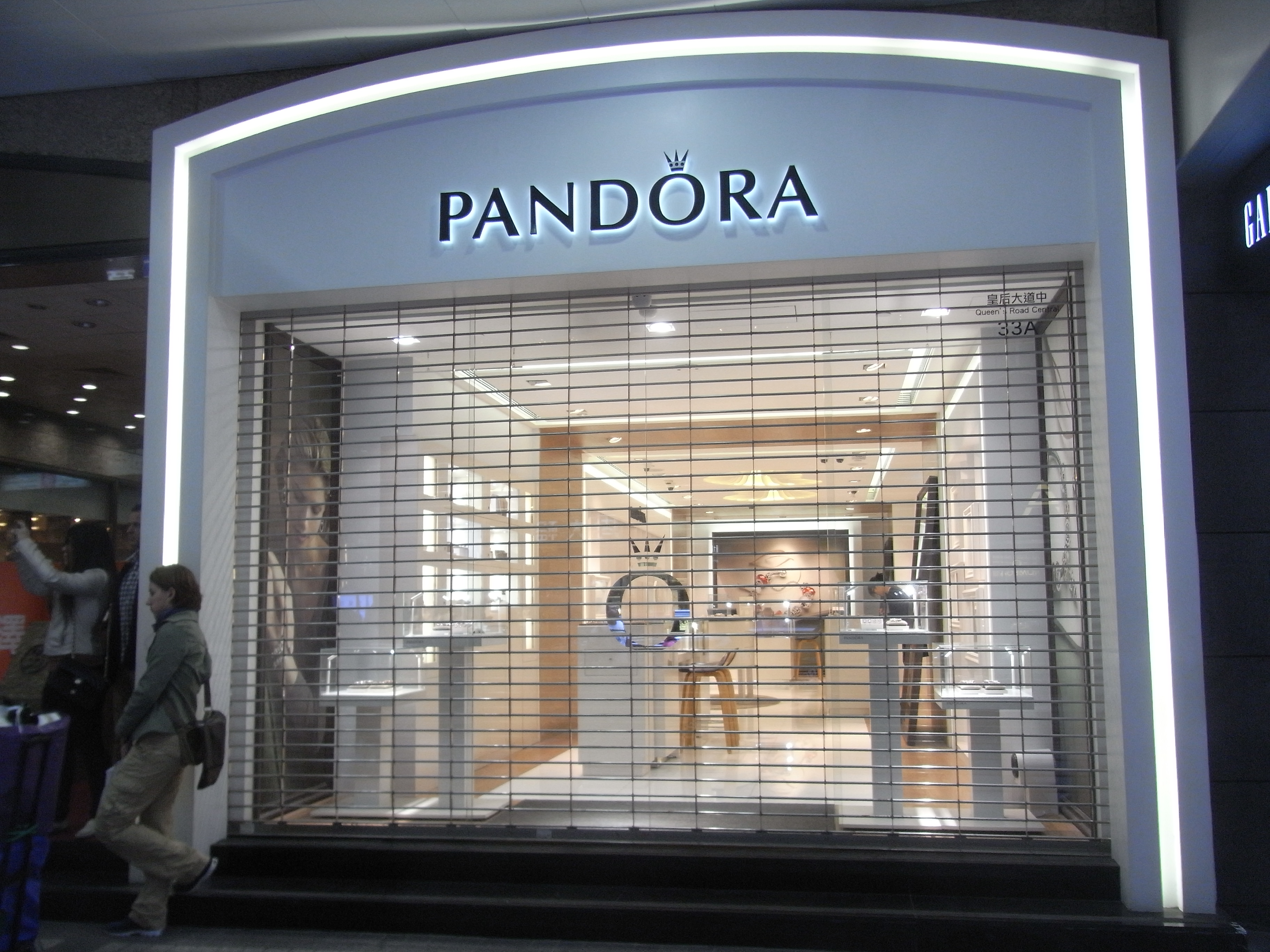 Pandora, No.33 Queen's Road Central, Hong Kong